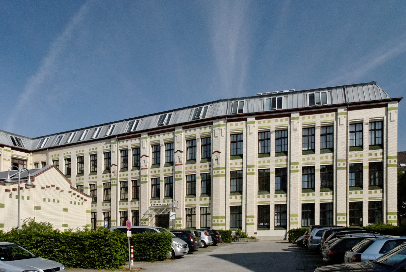 Salzmannbau in Düsseldorf-Bilk, Germany